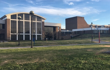 The campus of Walter's State Community College located in Morristown, Tennessee and taken in 2018.